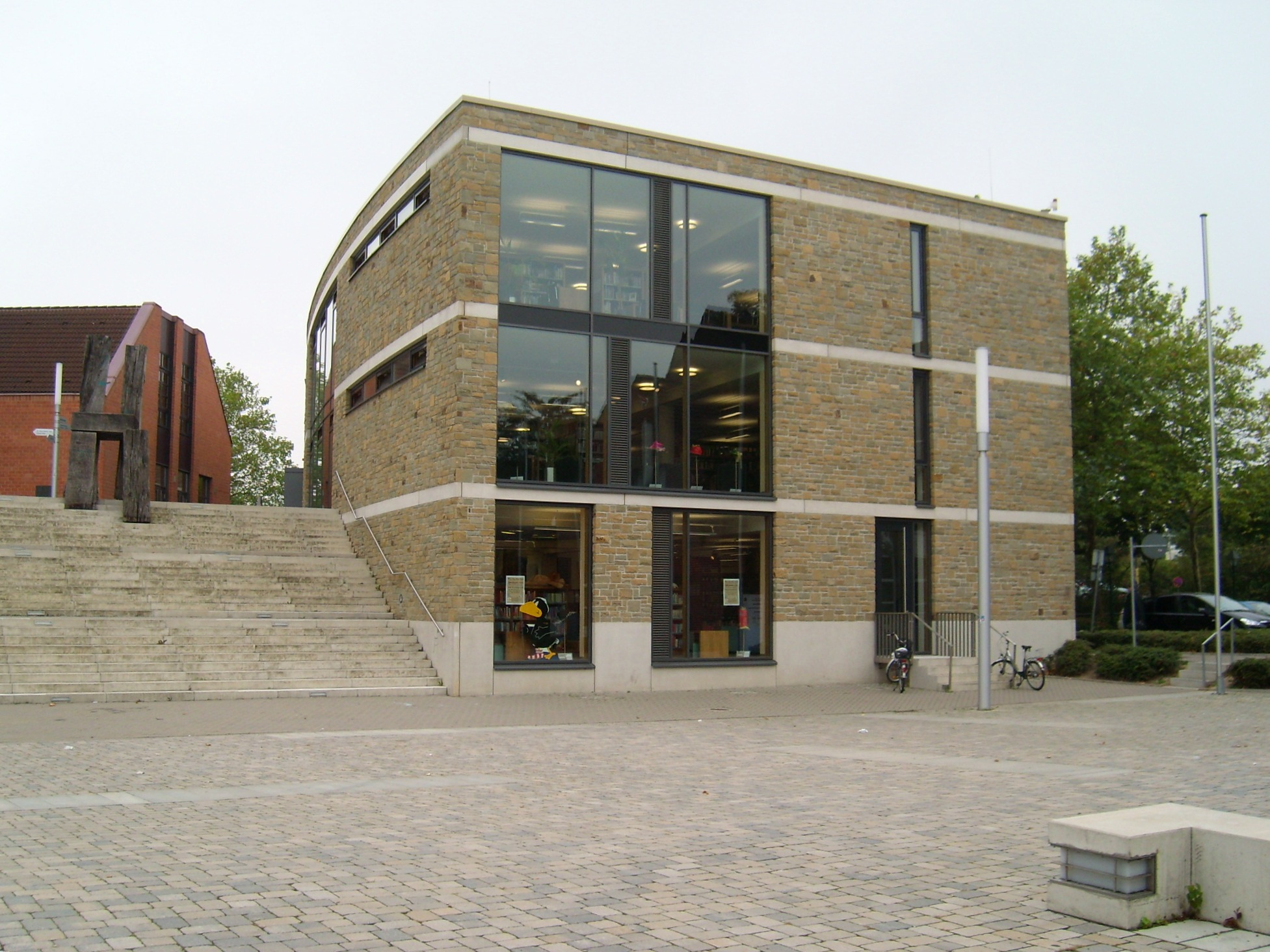 Photograph of the town library in Pulheim, snapshot of the backside. On the left there ist the "Dr. Hans Köster Saal". Created on 28th September 2009.